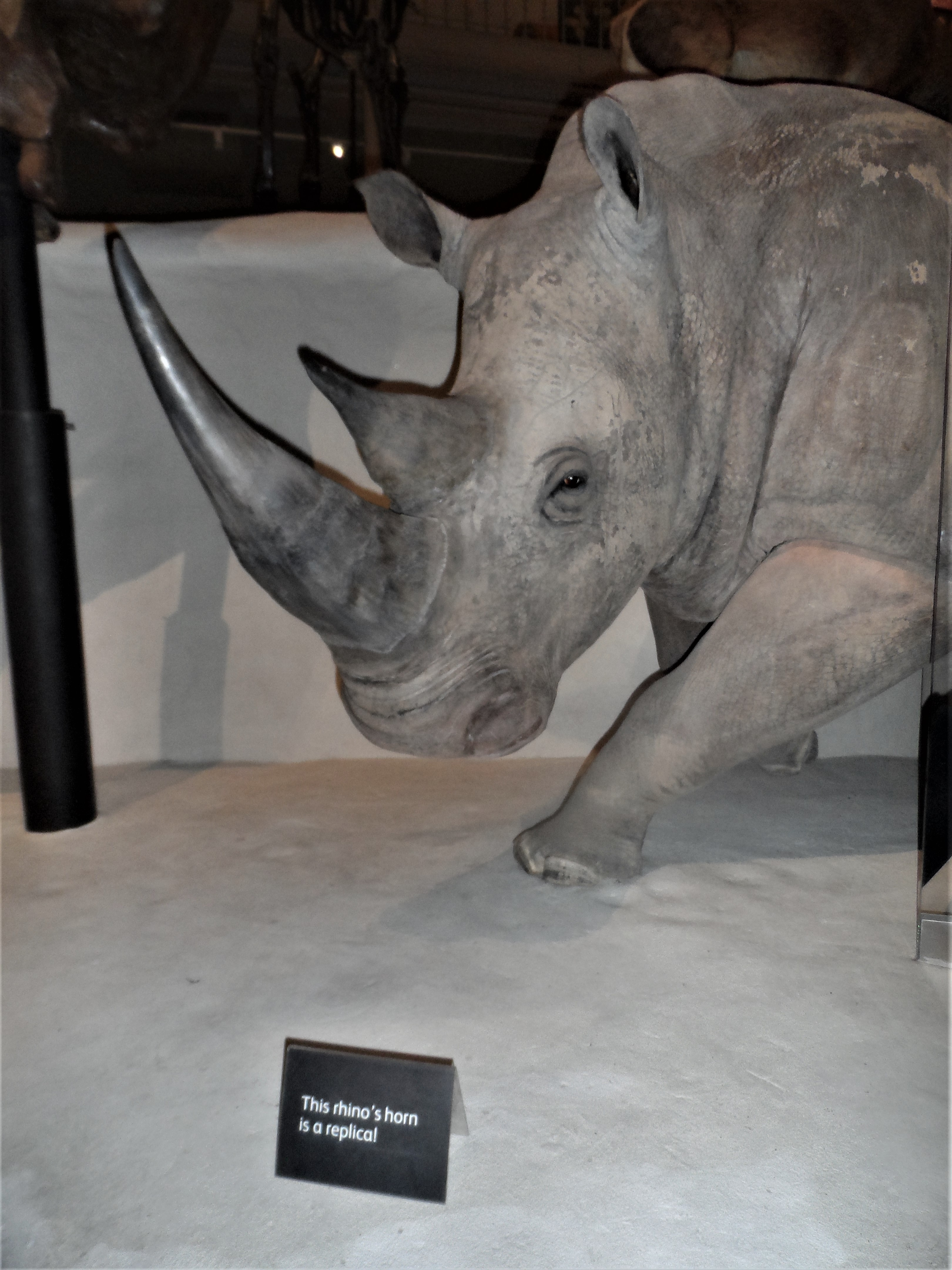 Rhino with fake horn